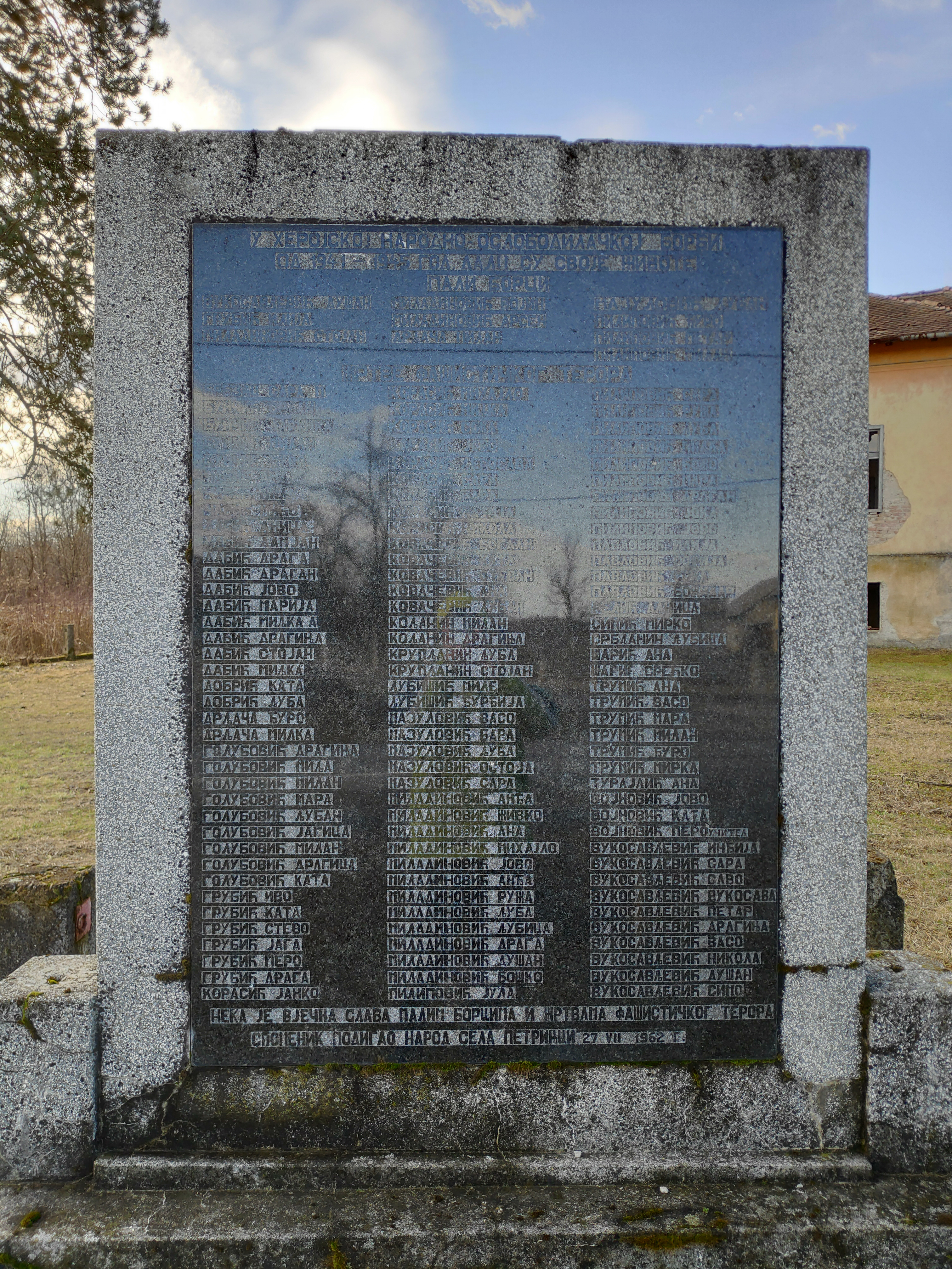 Monument to victims of Ustasa terror in Petrinjci,Croatia, 2 WW